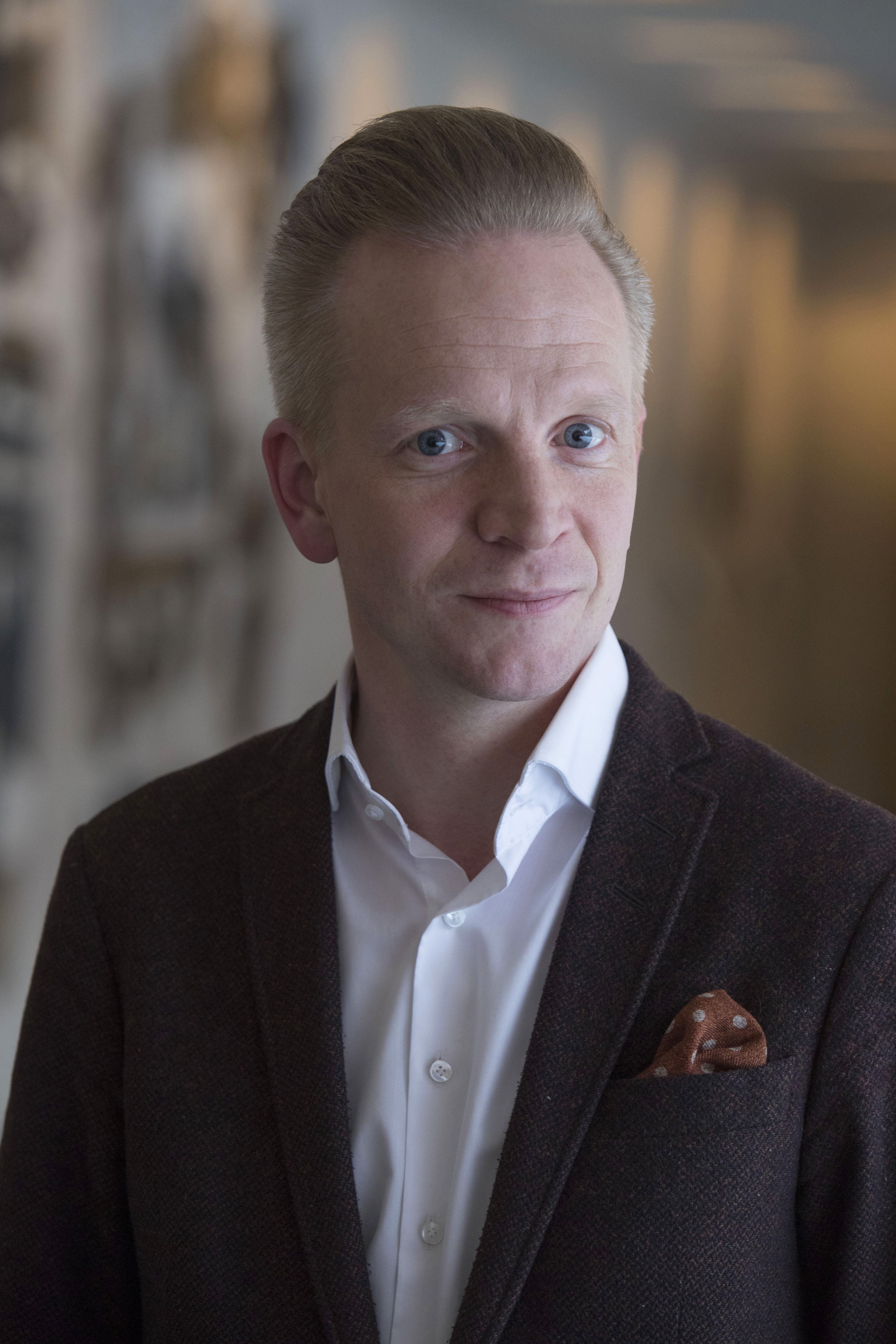 Henrik Nerlund, architectural historian, author